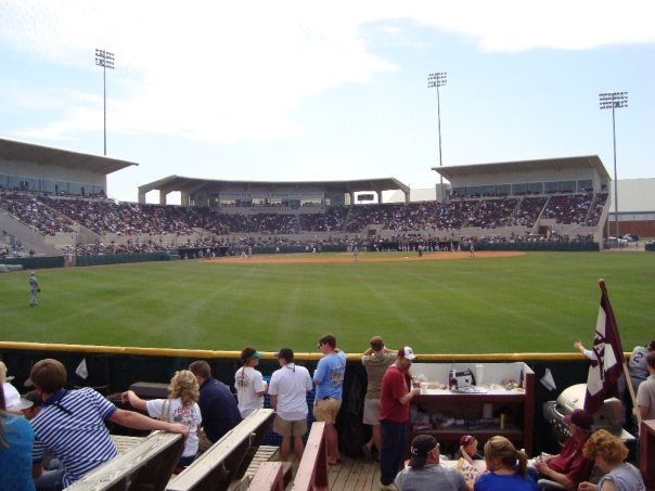 Dudy Noble Field as viewed from behind the outfield wall